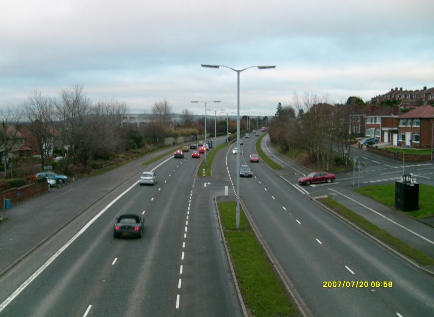 A55 Bun a' Chnoic, Cnoc na mBréadach, Béal Feirste, Condae an Dúin (radharc soir)